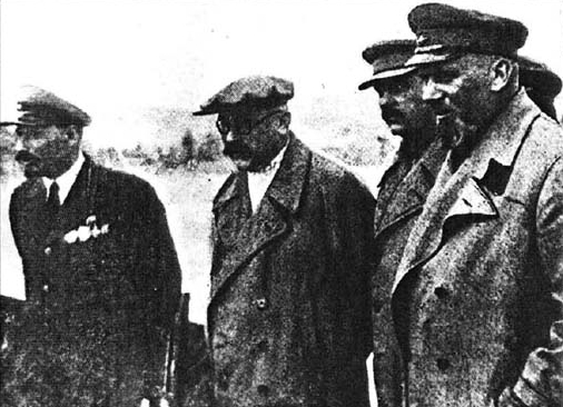 Eduard Petrovich Berzin (right), first director of soviet state trust "Dalstroi", together with subordinates in Magadan.